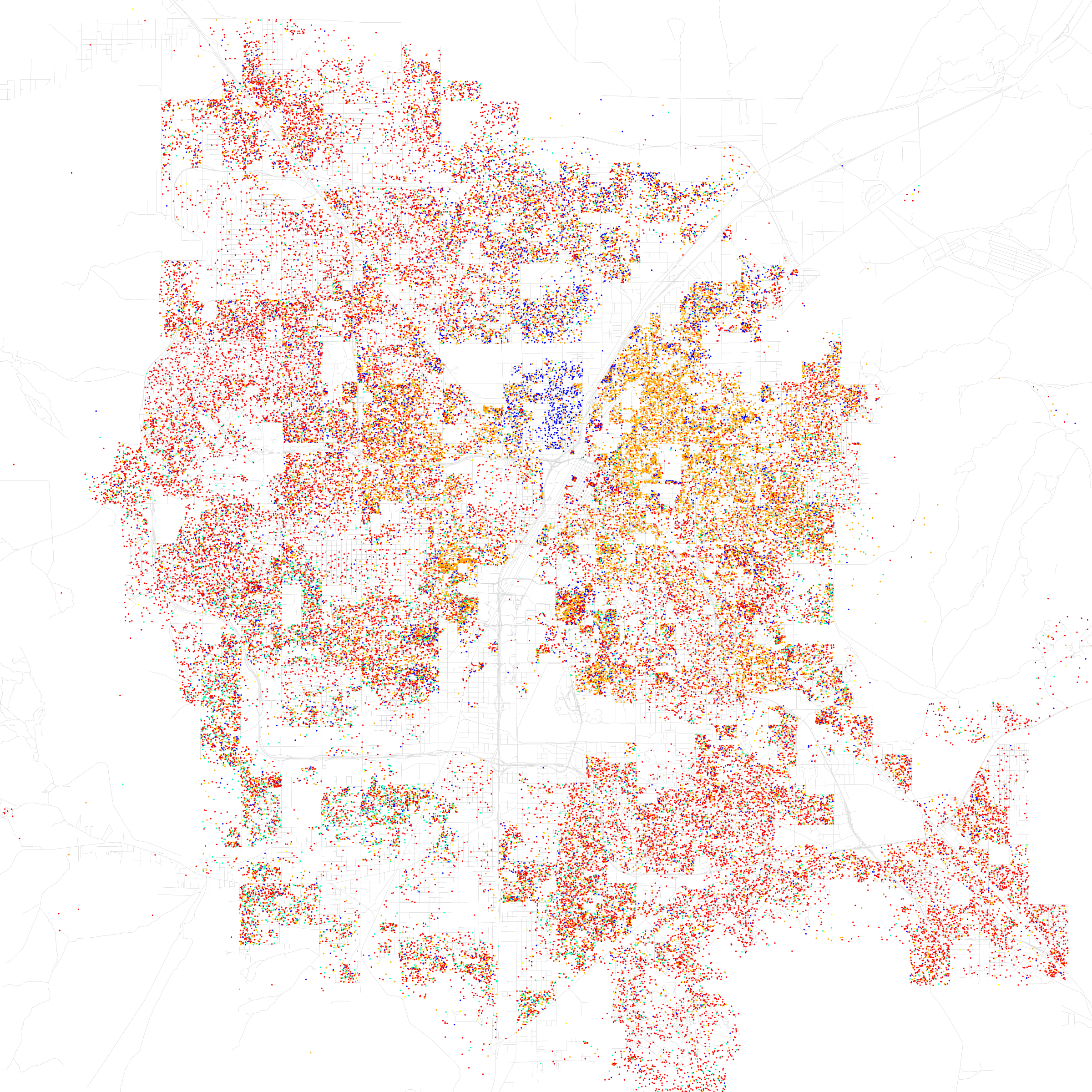 Maps of racial and ethnic divisions in US cities, inspired by Bill Rankin's map of Chicago, updated for Census 2010. Red is White, Blue is Black, Green is Asian, Orange is Hispanic, Yellow is Other, and each dot is 25 residents. Data from Census 2010. Base map © OpenStreetMap, CC-BY-SA